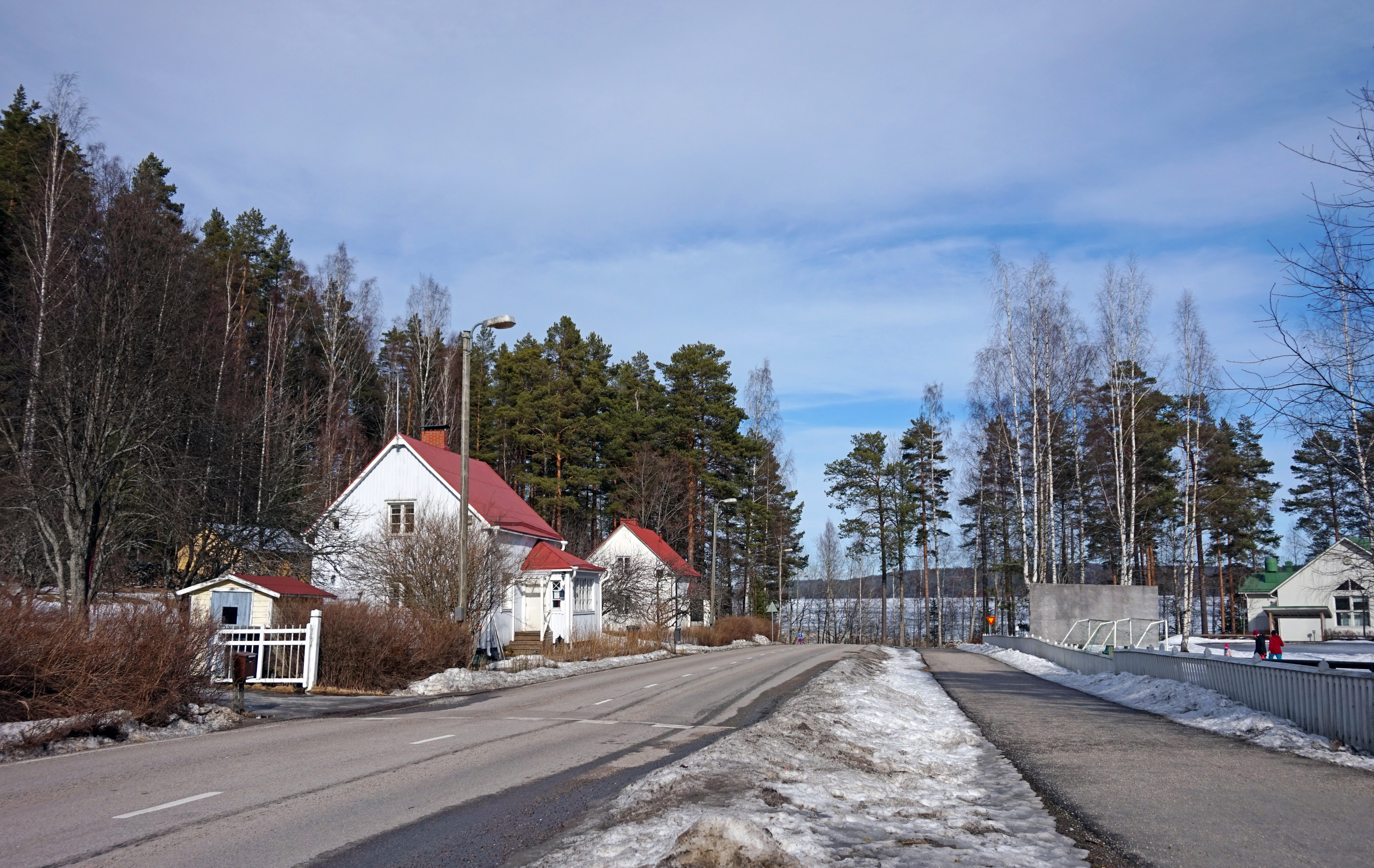 View on the street Saaritie in Muuratsalo district, Jyväskylä.This photograph was taken with a Sony ILCE-5000